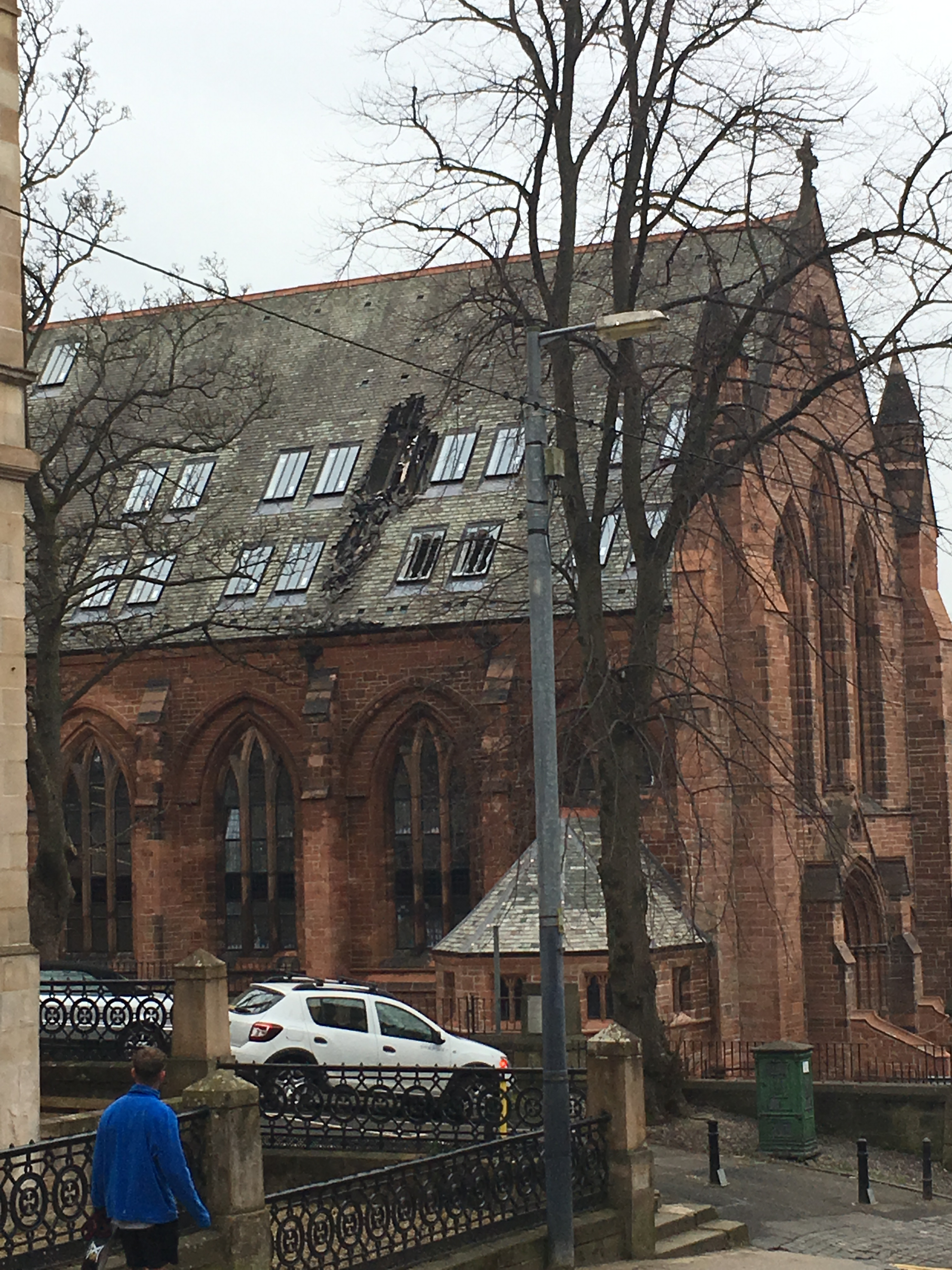 1 Lilybank Terrace, Laurel Bank School Wikidata has entry Q17800717 with data related to this item.